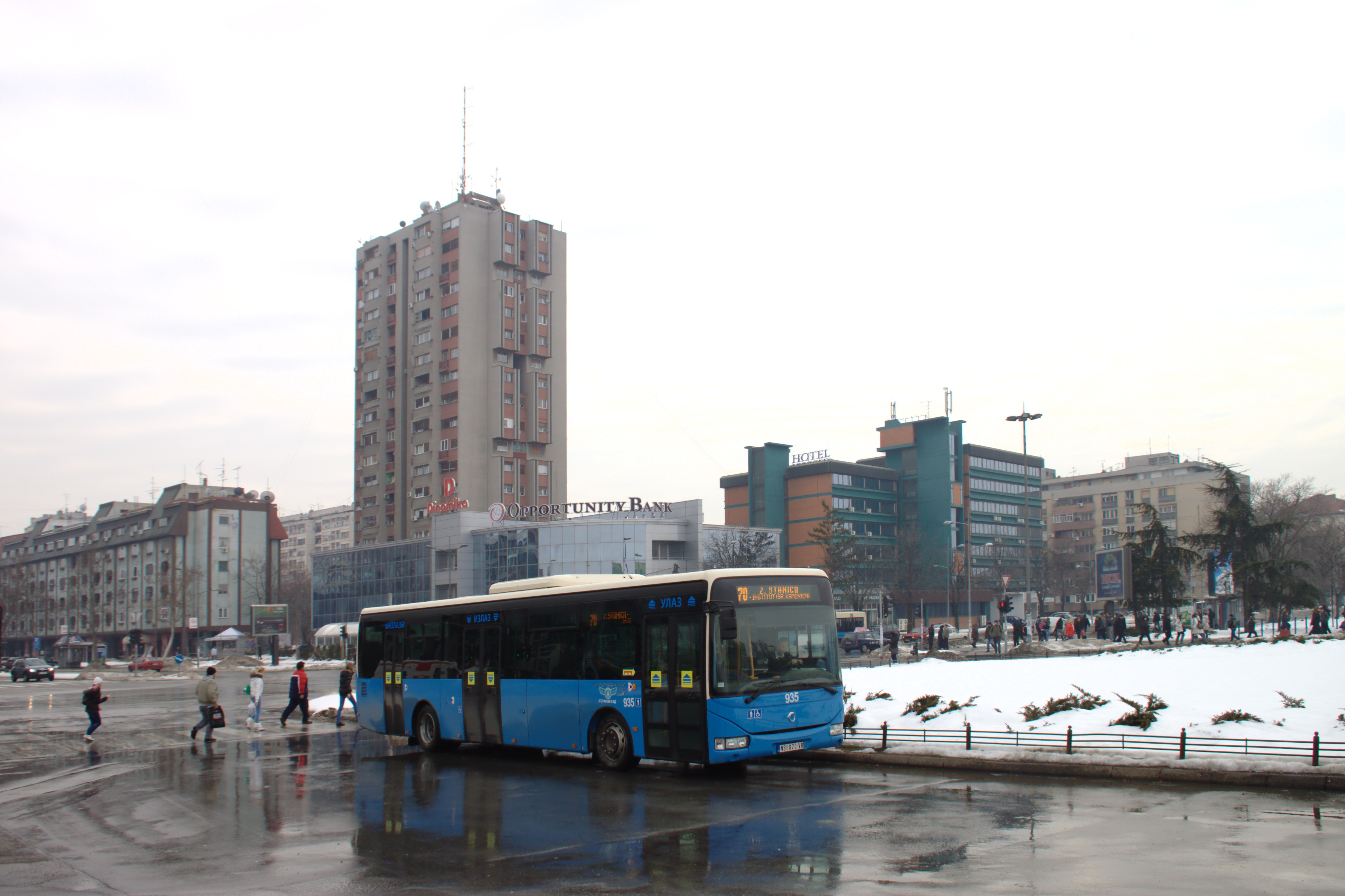 An Irisbus Crossway of the Novi Sad Public transport operator bus in front of the local train station, Serbia